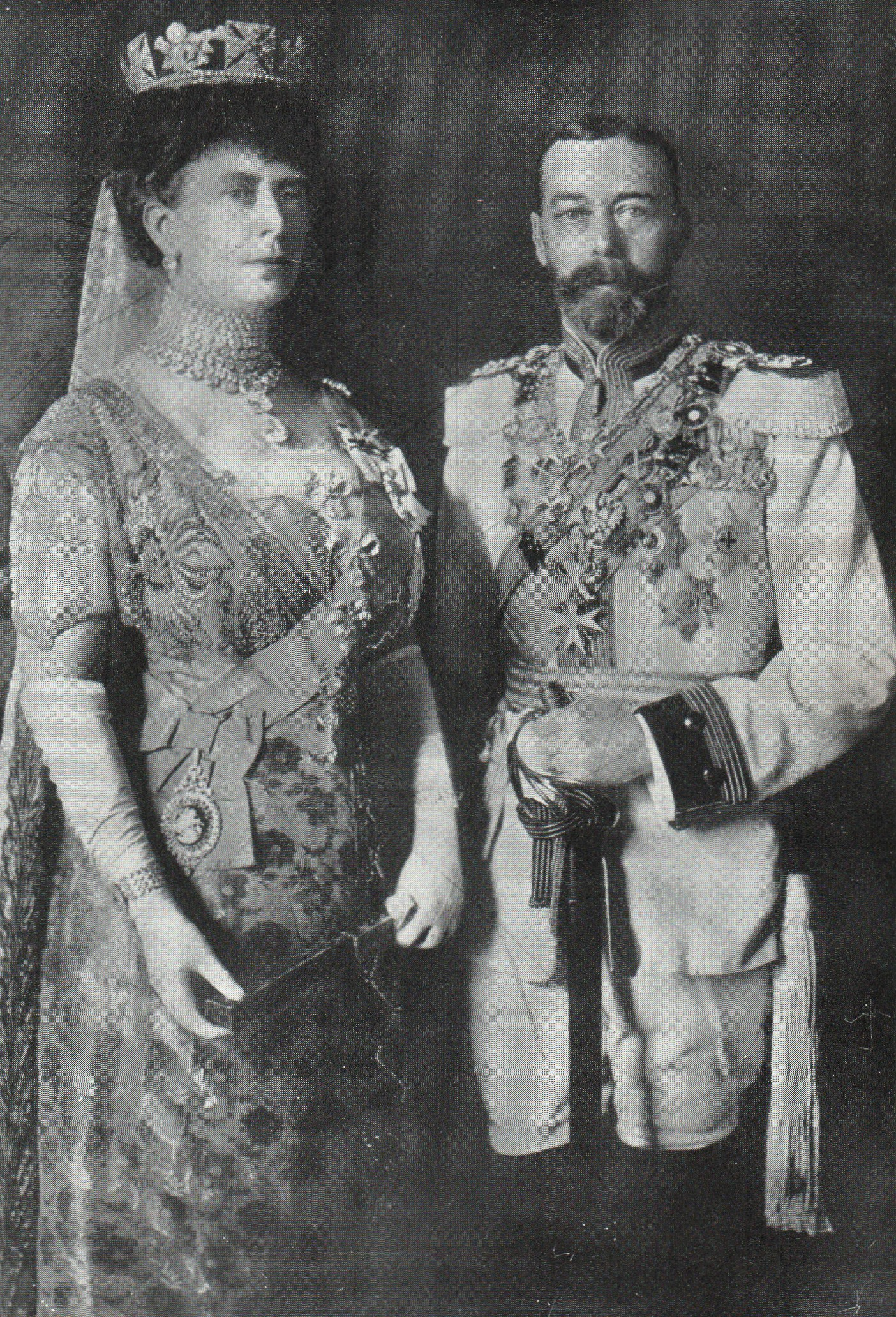 The original description reads: "Great Britain's King and Queen "This picture was taken at the wedding of the Kaiser's only daughter, Princess Victoria Louise, to Prince Ernest of Cumberland. The King, in honor of the occasion, is dressed in the uniform of a German cuirassier. The Queen's dress is of cloth of gold with a long train. Her majesty wore a diamond tiara and ropes of magnificent diamonds round the neck, with diamond pendant composed of two enormous stones."